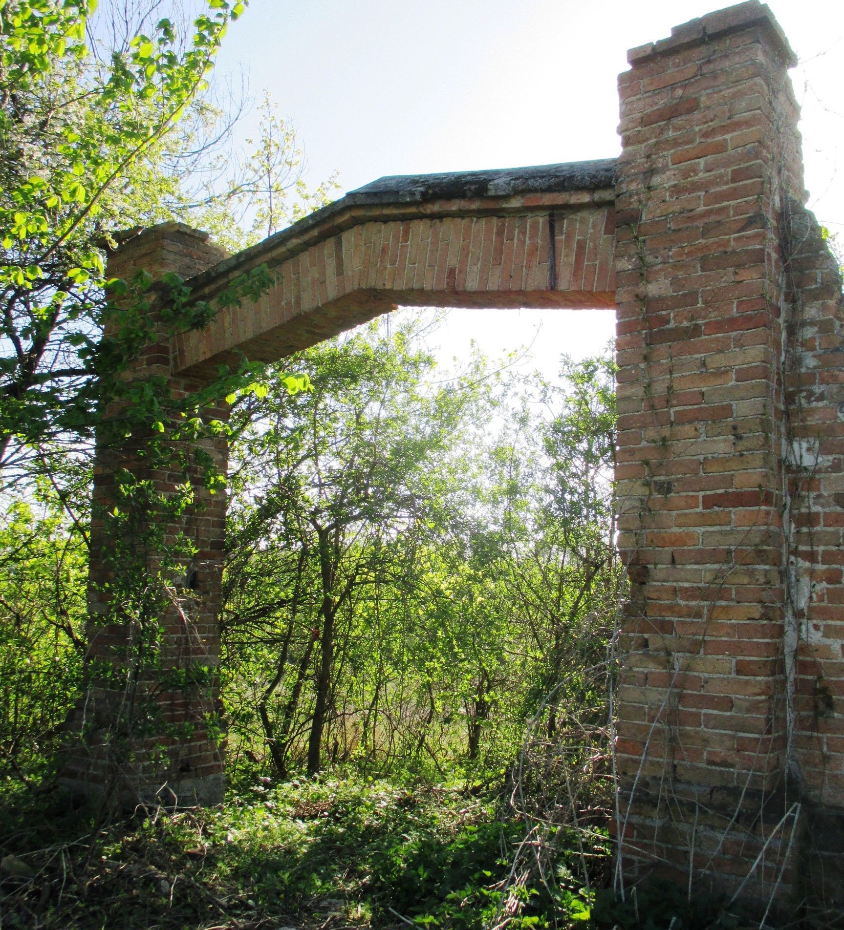 The remains of the entrance gate to the Yablonovsky